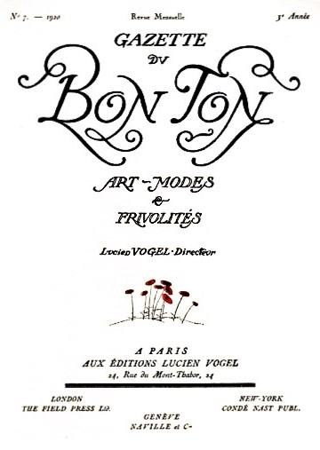 Cropped, adjusted version